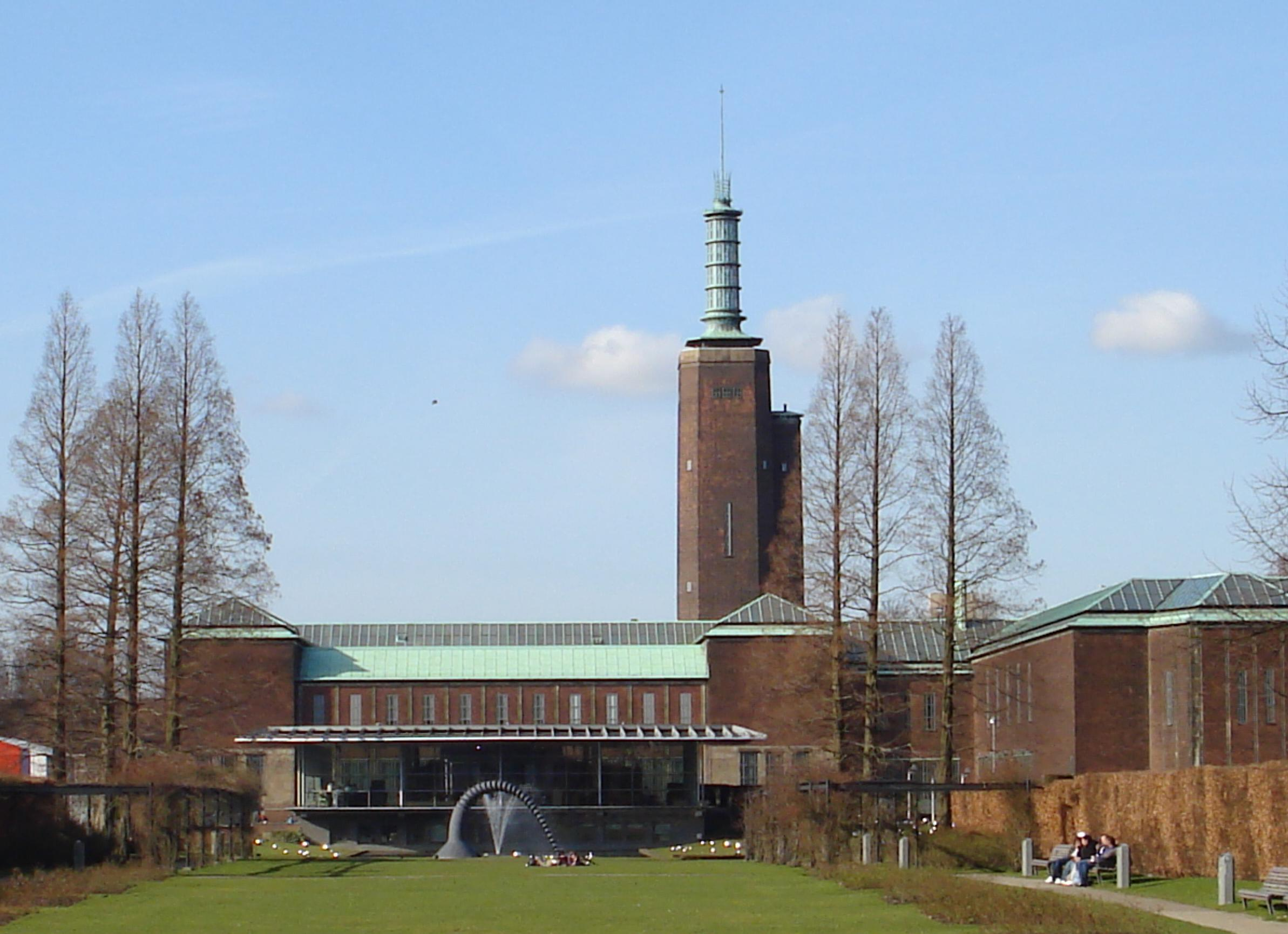 Part of Museum Bijmans Van Beuningen, Rotterdam